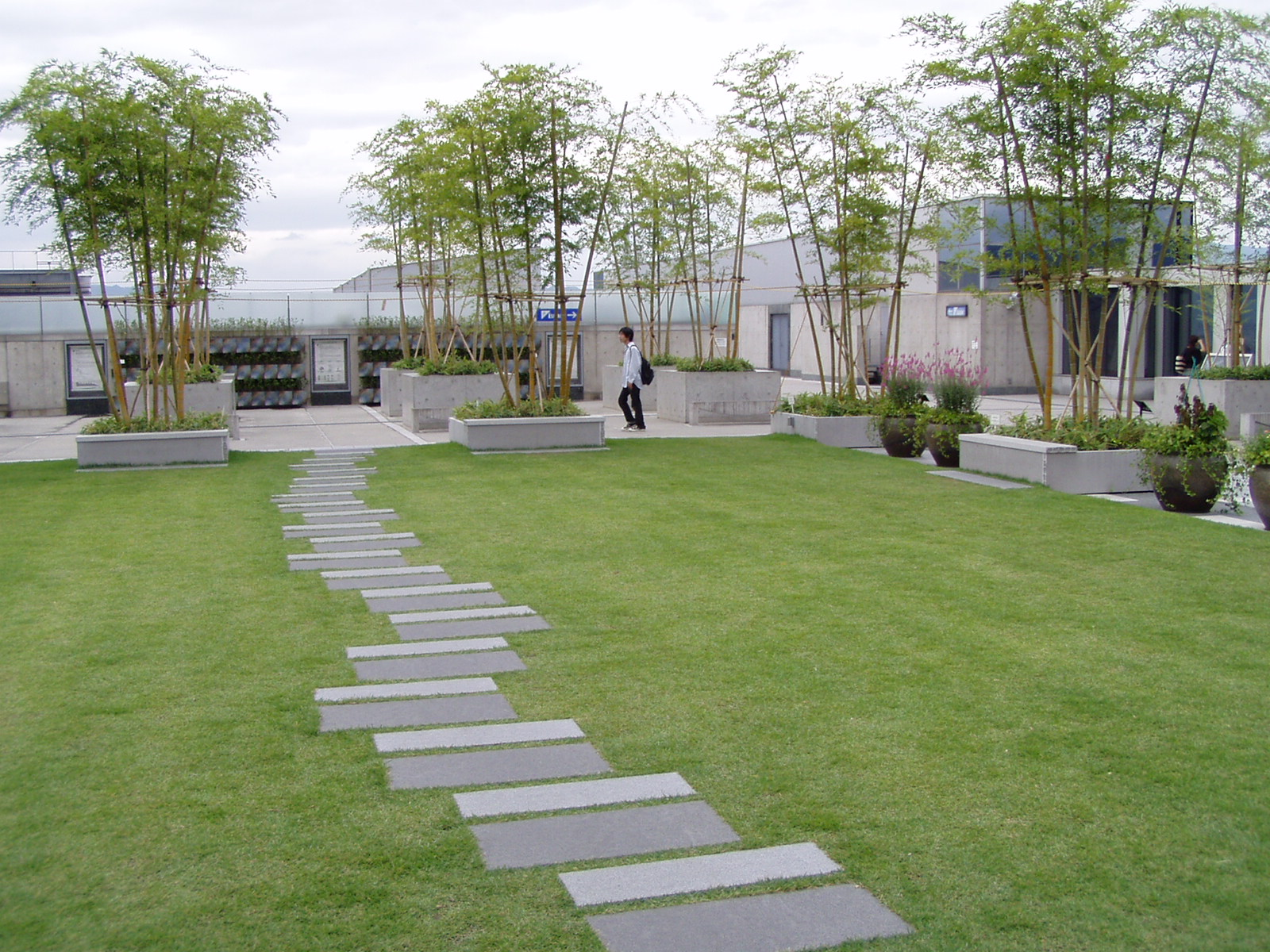 Kyoto station, rooftop garden